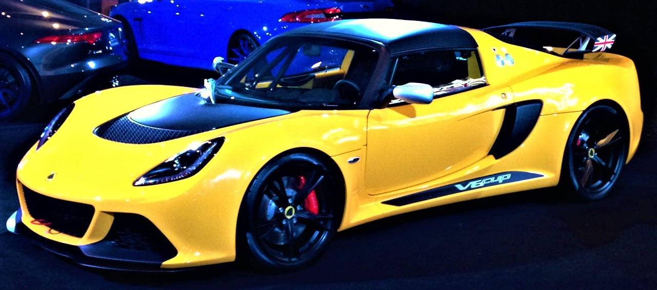 Lotus Exige